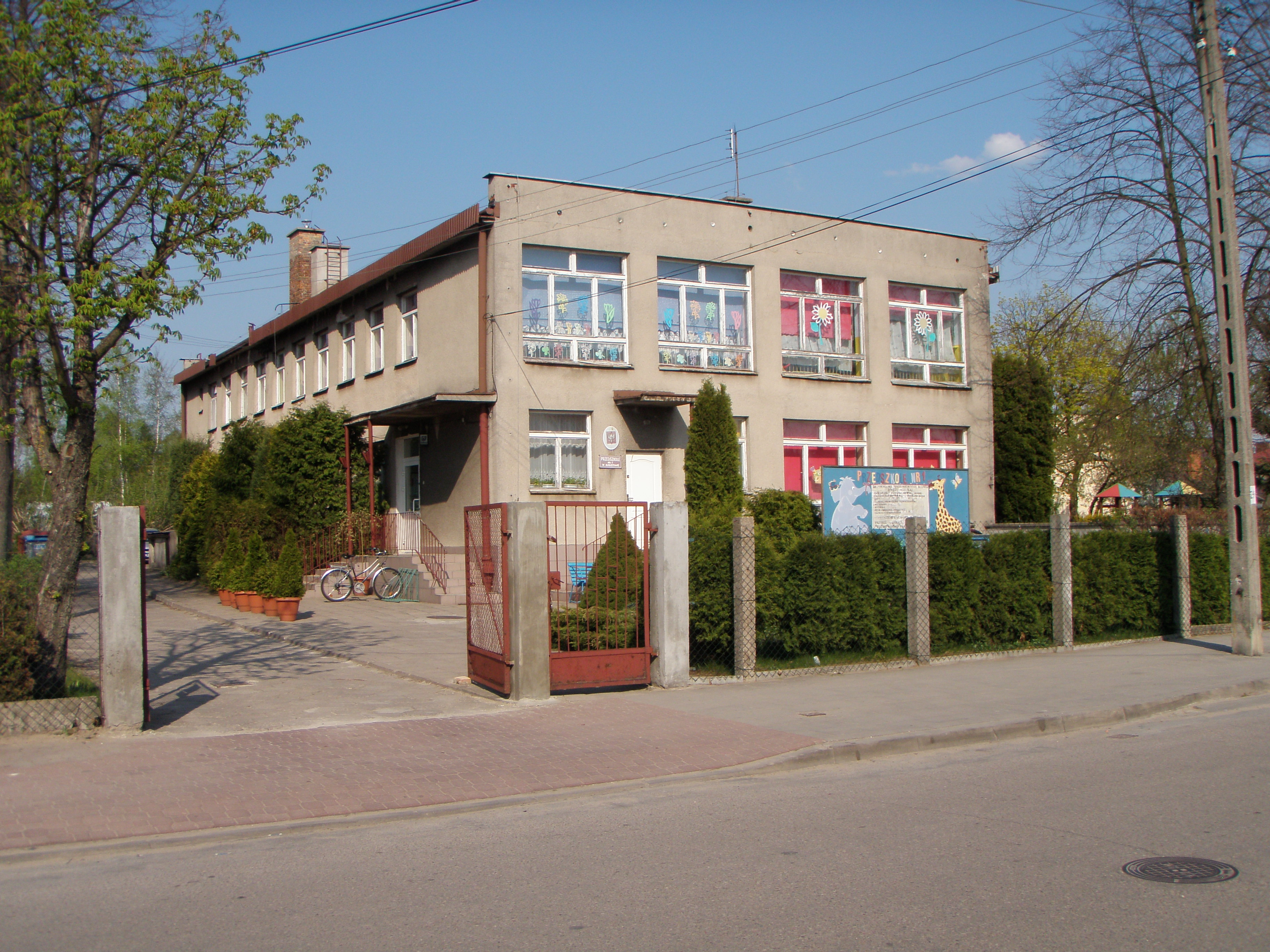 1st Kindergarten in Augustów in Poland